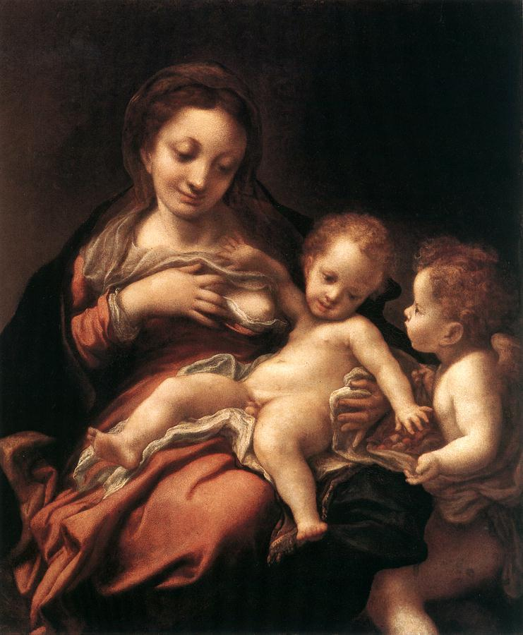 Madonna del Latte Date: 1523 Movement: Renaissance (High Italian, "Cinquecento") Theme: Saints Technique: Oil on canvas Museum: Museum of Fine Arts Location: Budapest, Hungary